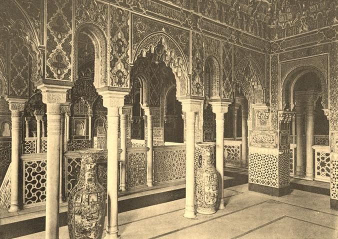 Interior of the Palacio de Xifré (Madrid)